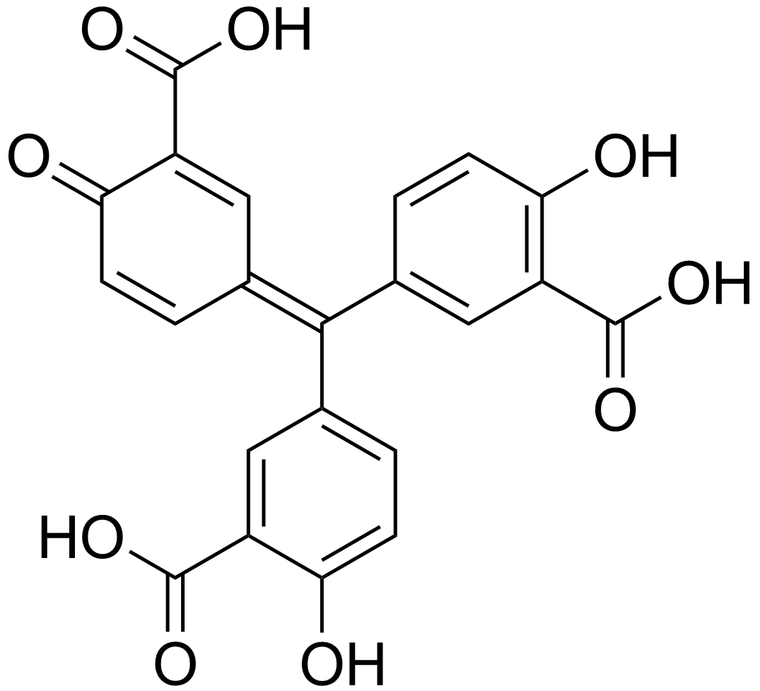 Chemical structure of aurintricarboxylic acid (Aluminon free acid)